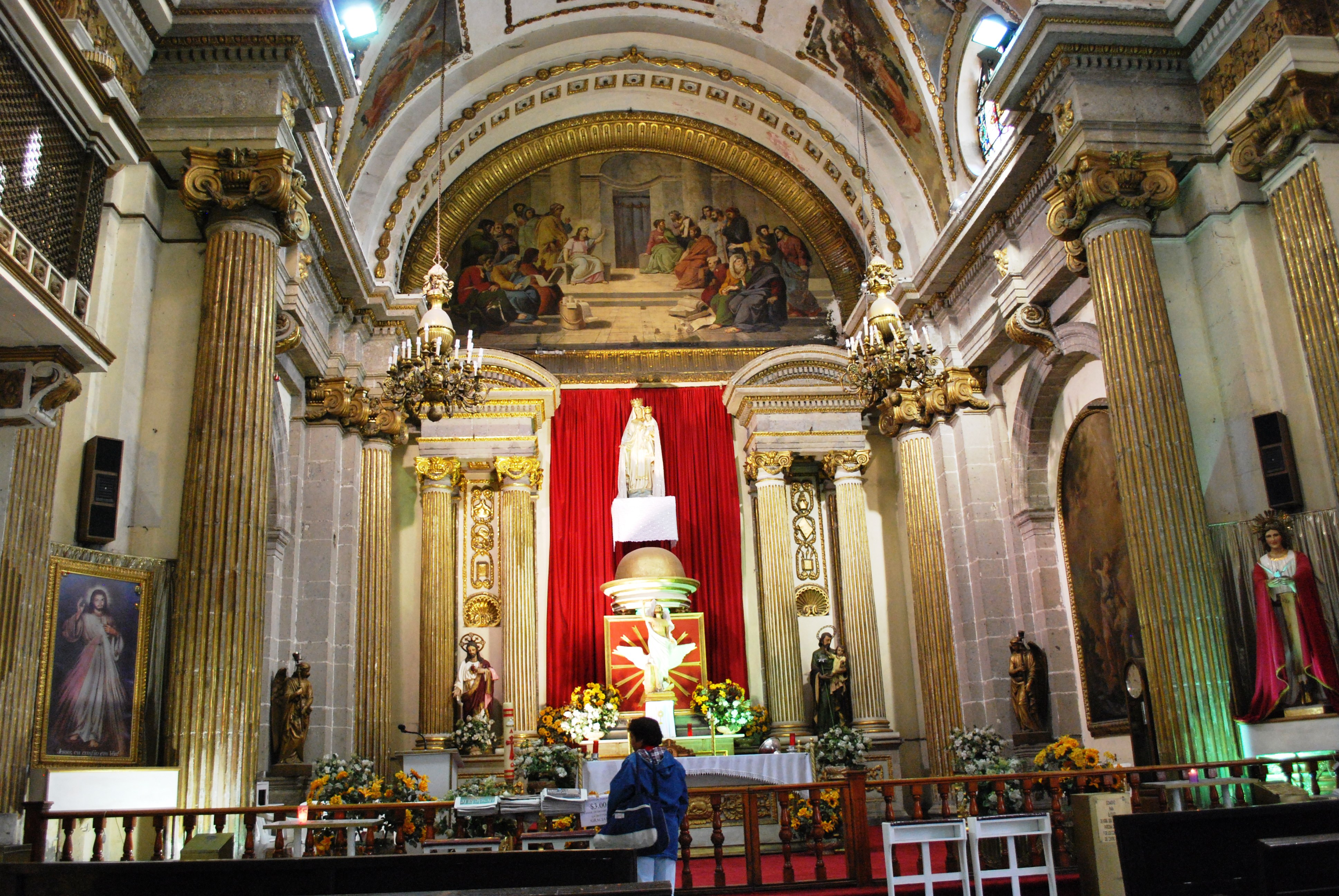 Main altar of the Parish of Jesus y Maria y Nuestra Señora de la Merced located in the historic center of Mexico City